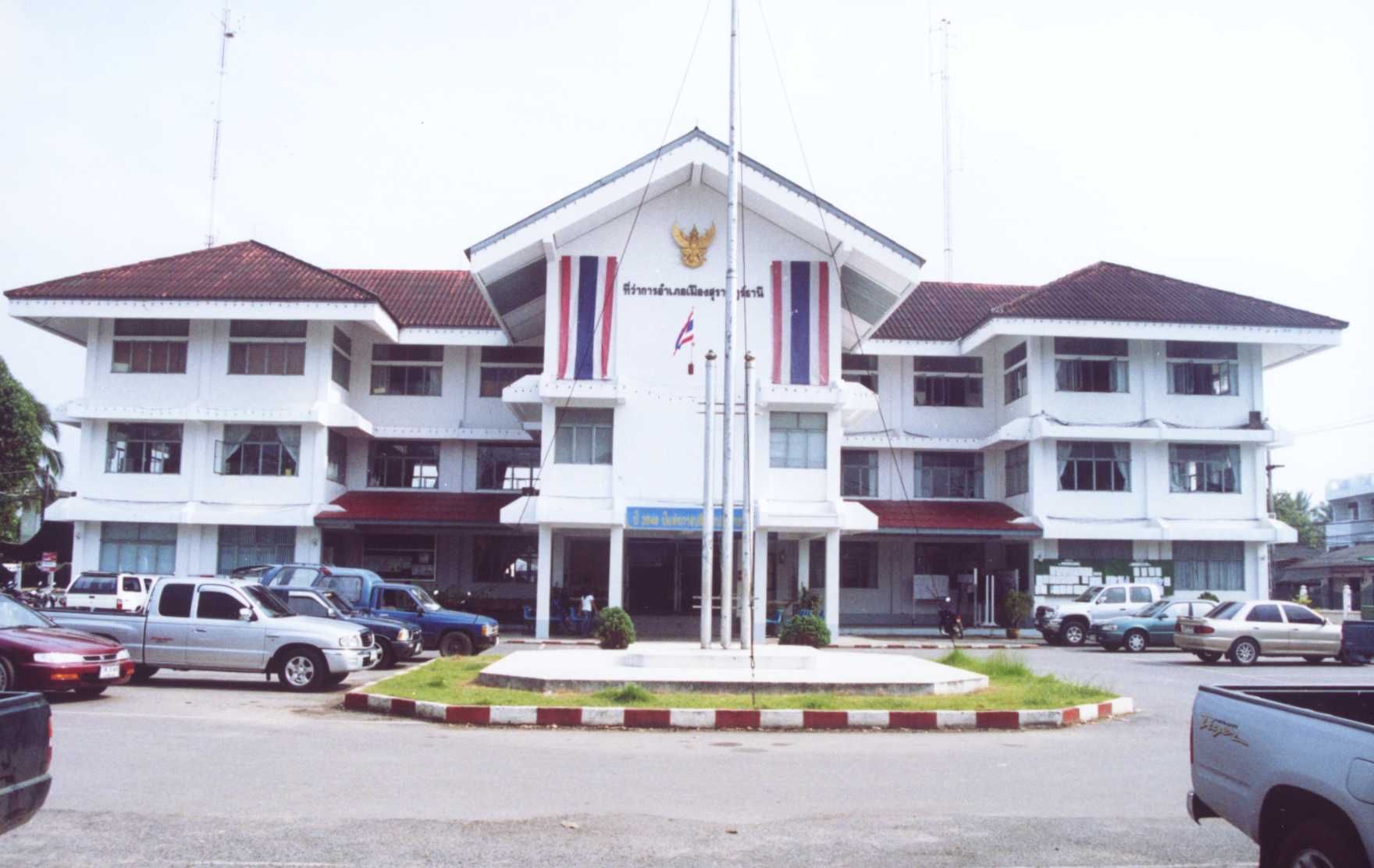 District office of Mueang district, Surat Thani Province, Thailand. Photo taken by User:Ahoerstemeier taken on January 27 2006.